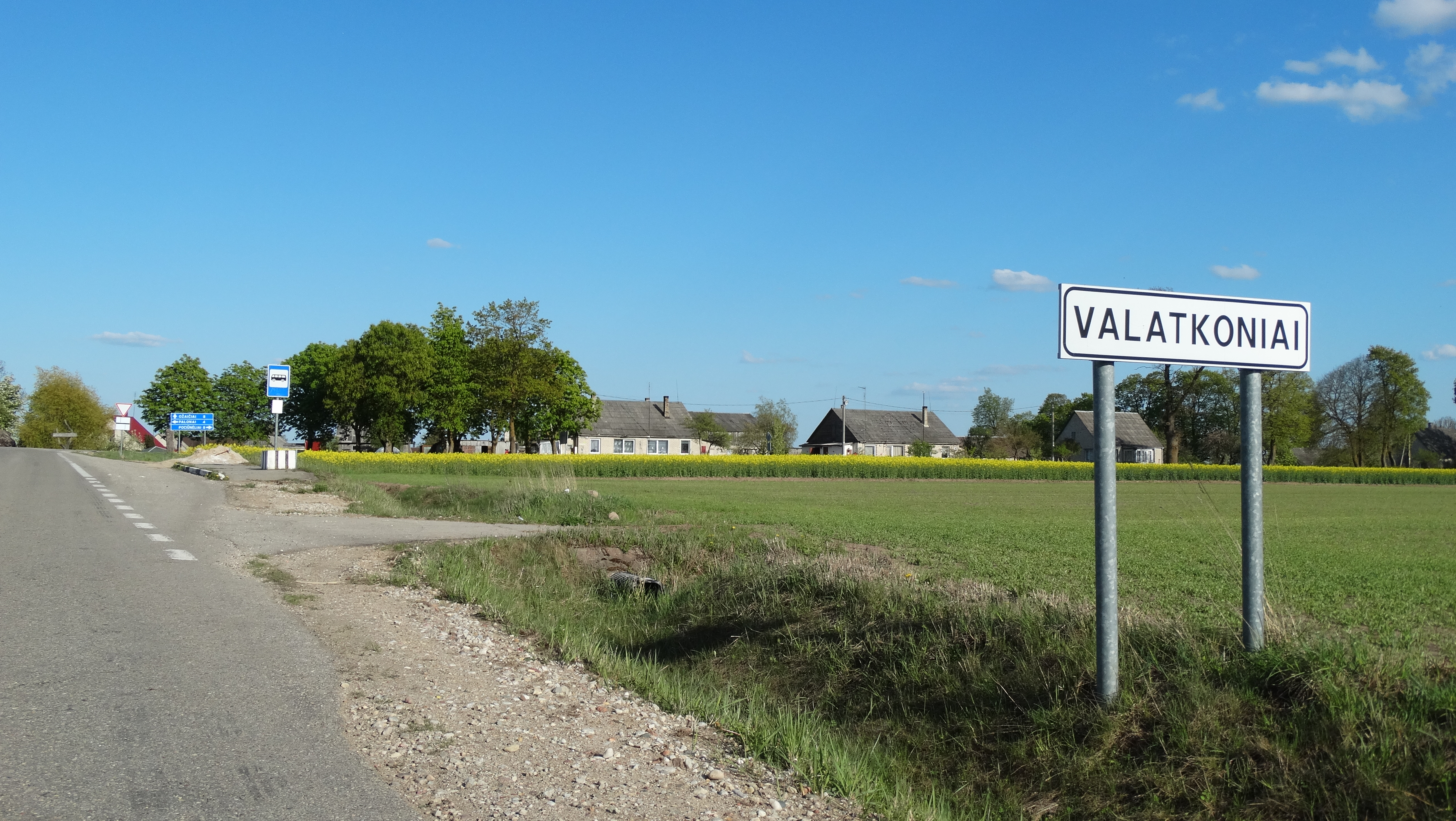 Valatkoniai, Radviliškis District, Lithuania